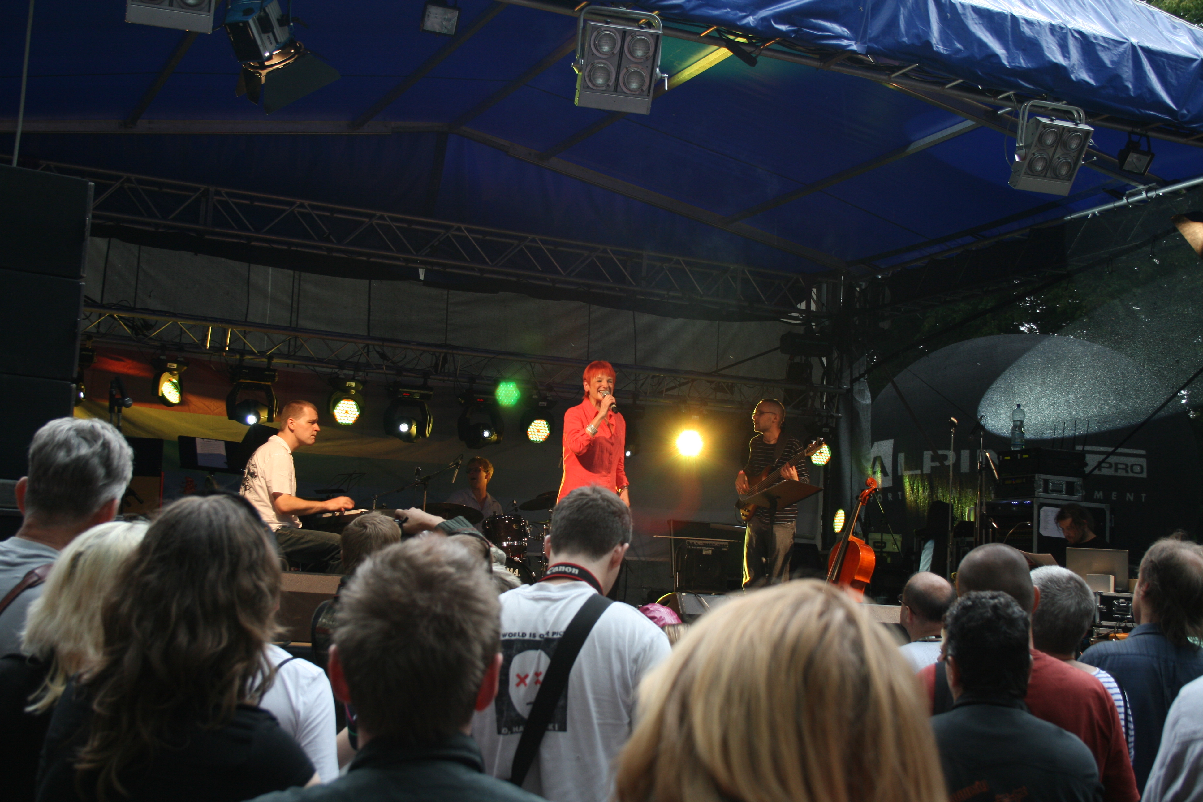 Jazz interpretor Jana Koubková at Prague Pride 2011 music festival at Střelecký ostrov, Prague, Czech Republic.